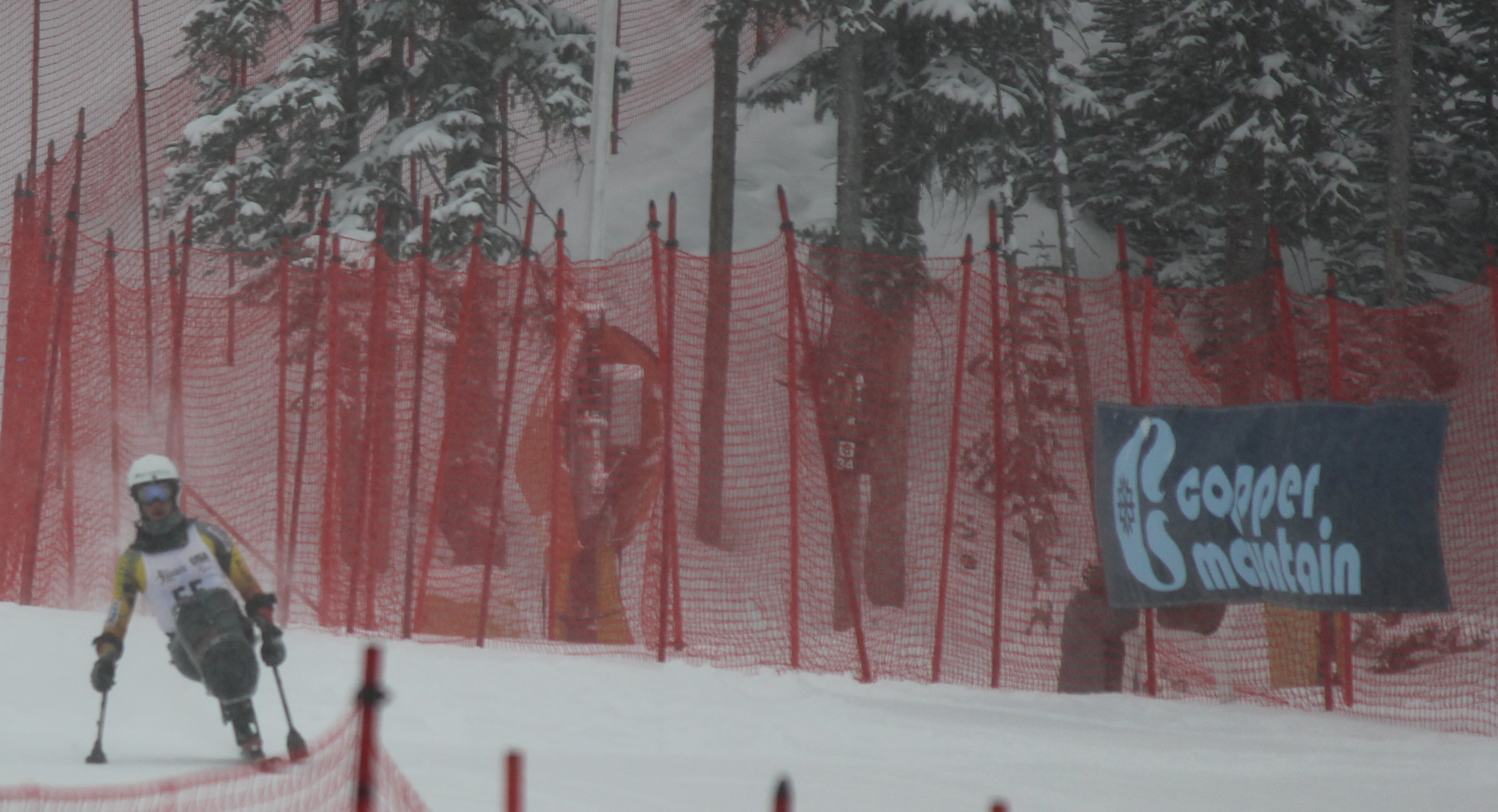 10 December 2012 Canadian para-alpine skier at IPC Nor-Am Cup in the Super G.